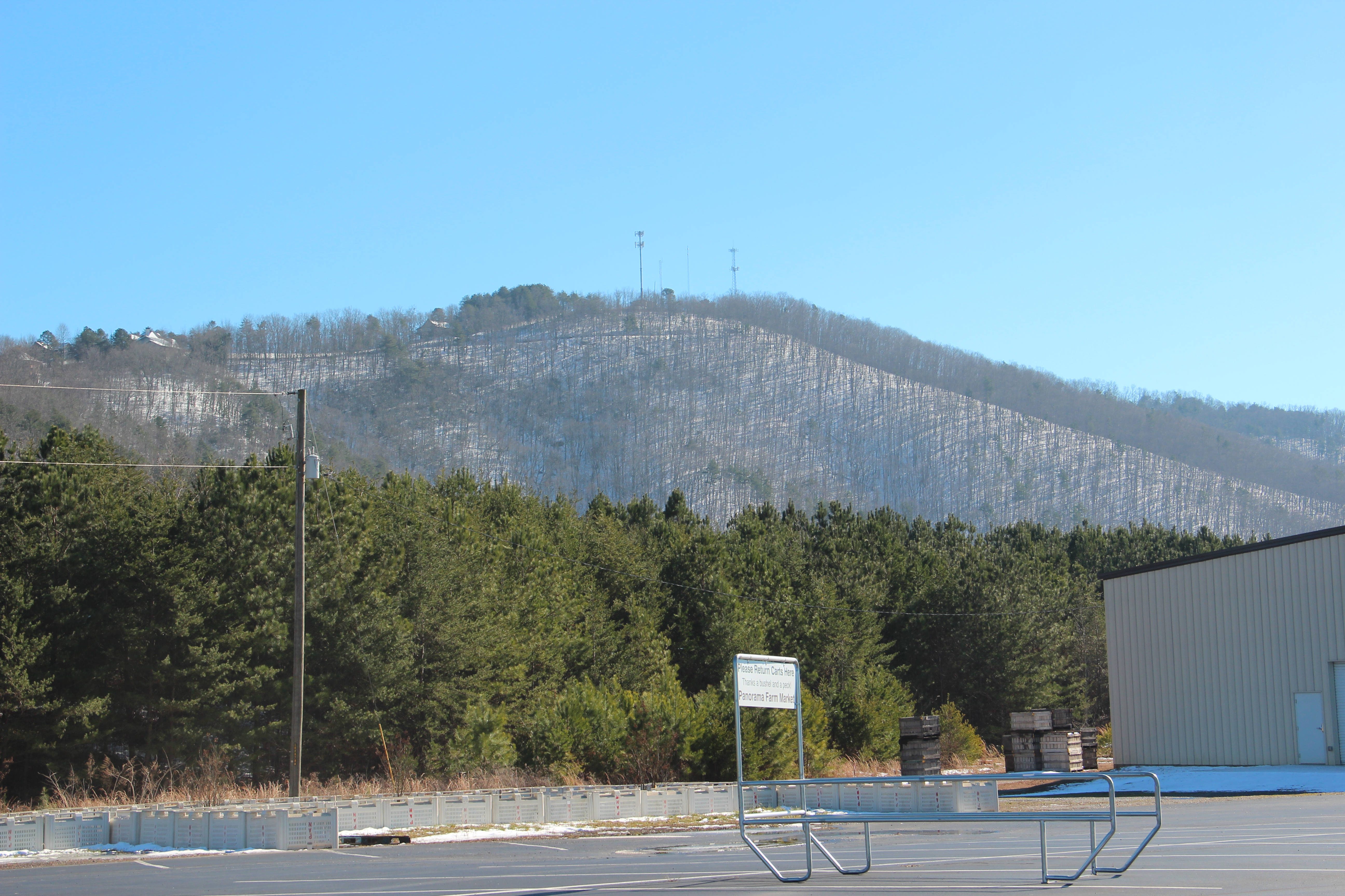 Gilmer County, Georgia